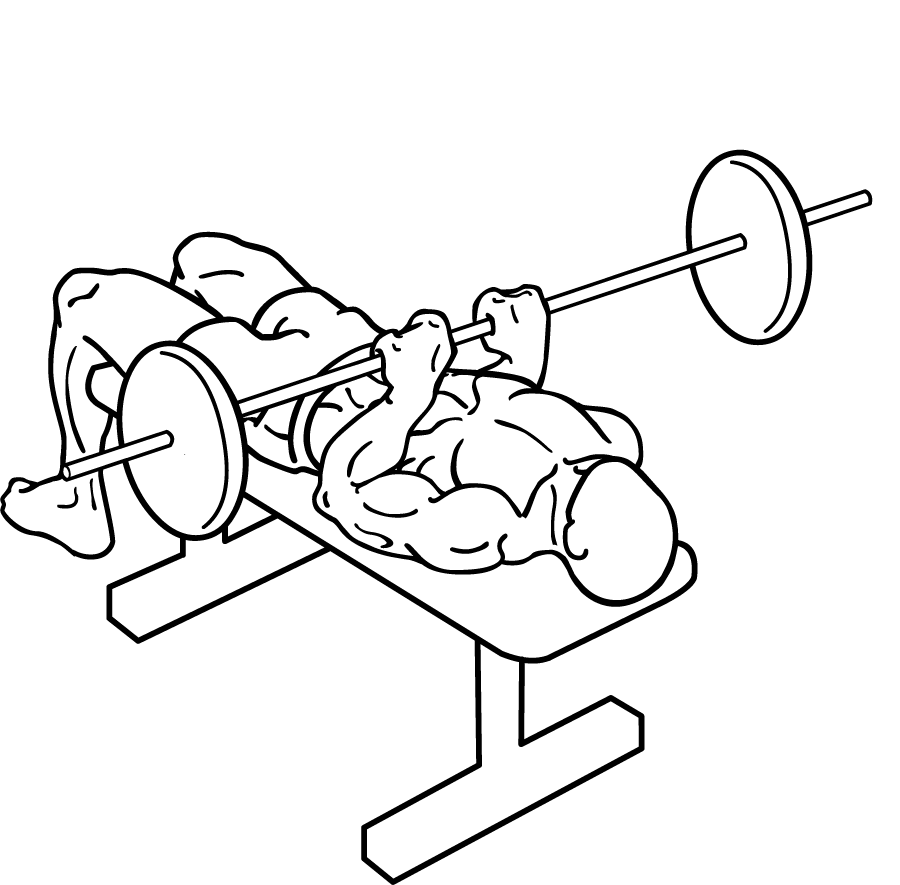 an exercise of triceps